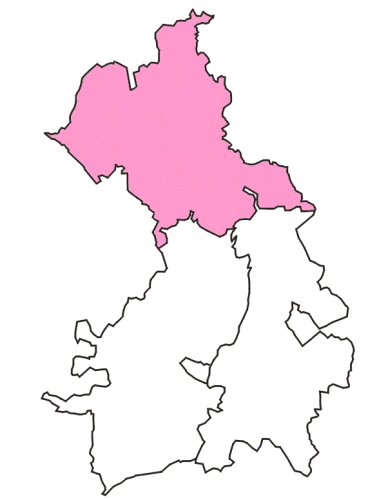 Map of the former constituency of Wisbech within Cambridgeshire.